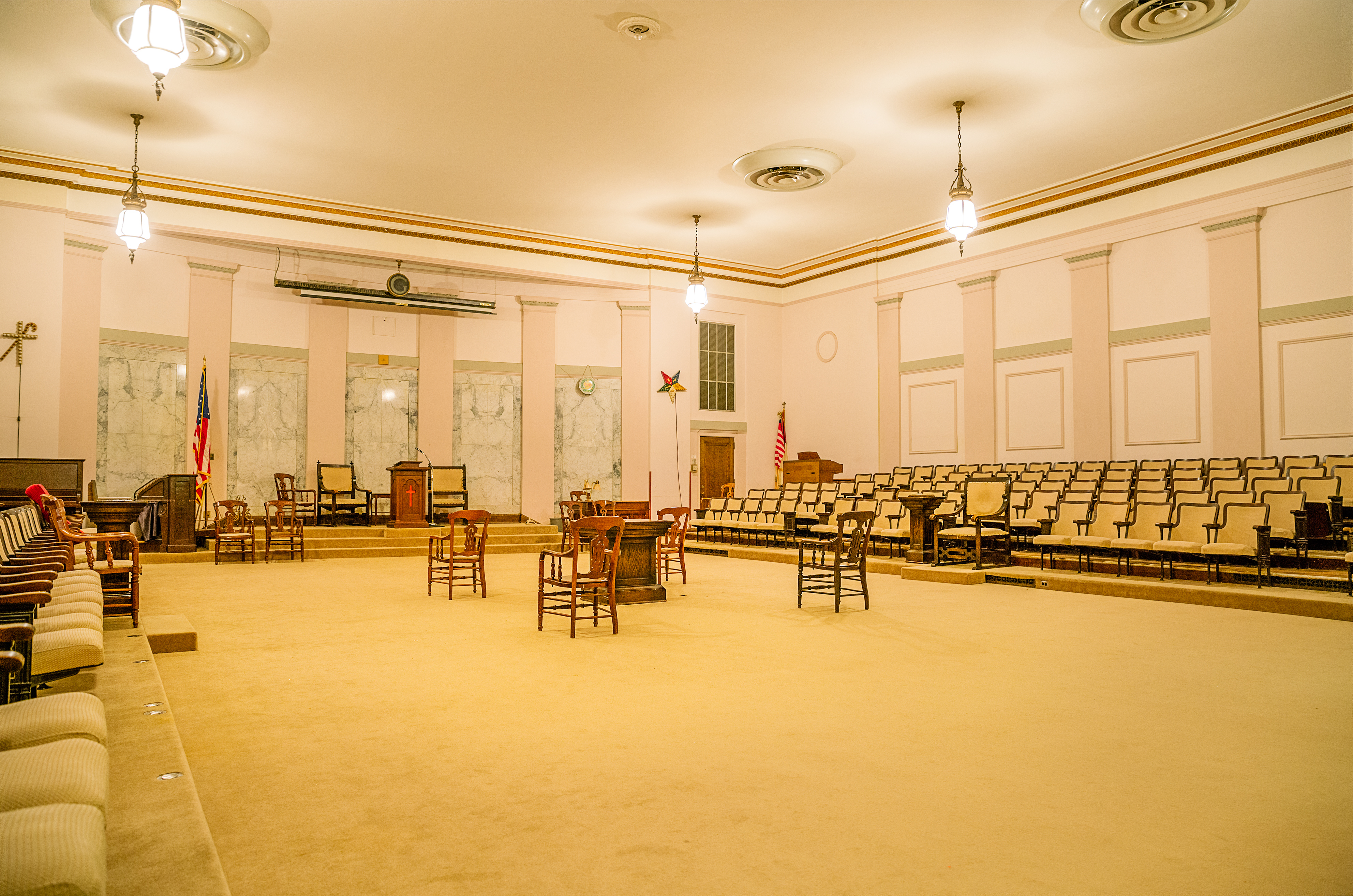 Madison Masonic Center / Madison Masonic Temple Designed by Madison architects James R. and Edward J. Law in 1915 and redesigned after World War I in 1922, the temple was built during 1923 to 1925. It was listed on the National Register of Historic Places in 1990 under Madison Masonic Temple, National Register Information System ID: 90001456.